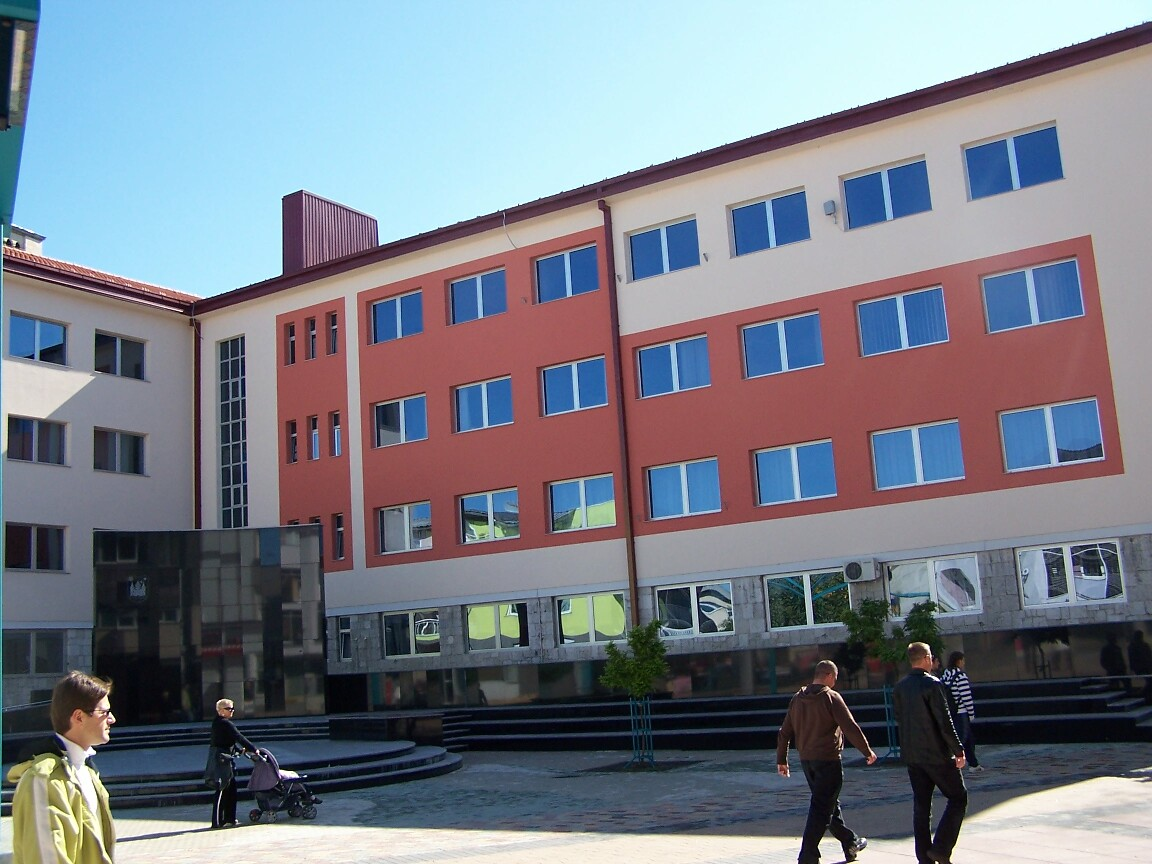 Bihac, Town hall, Rathaus